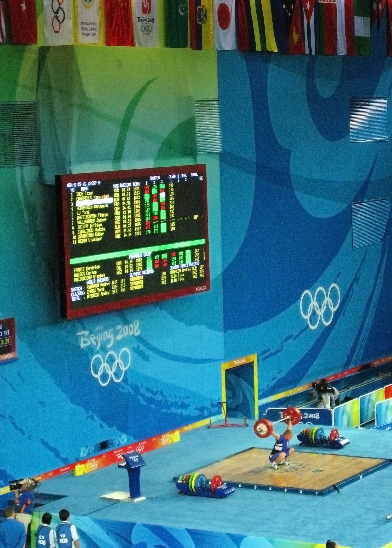 Andrei Rybakou of Belarus Weightlifting at the 2008 Summer Olympics in the 85kg category.